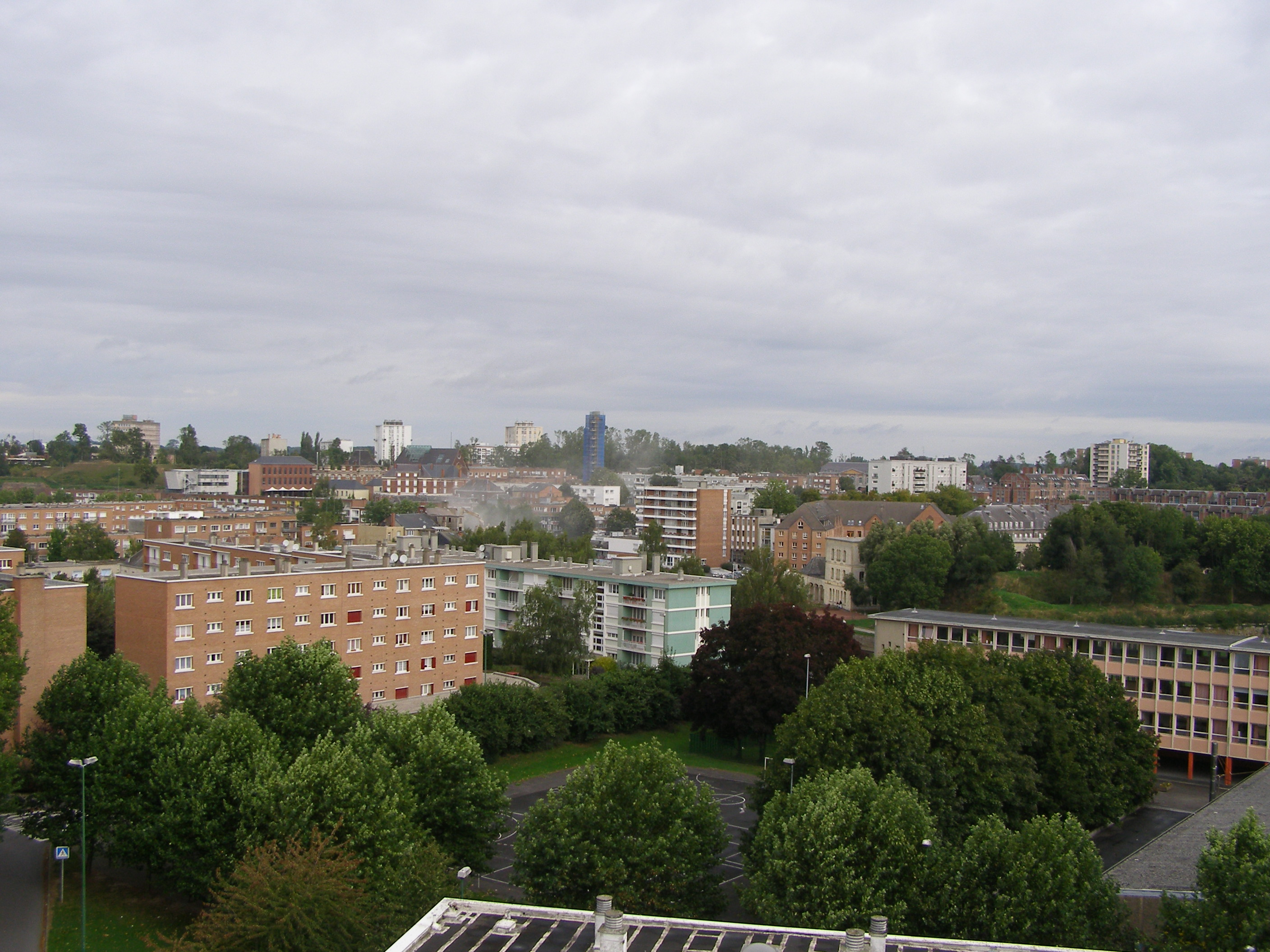 overview from the French provinces.